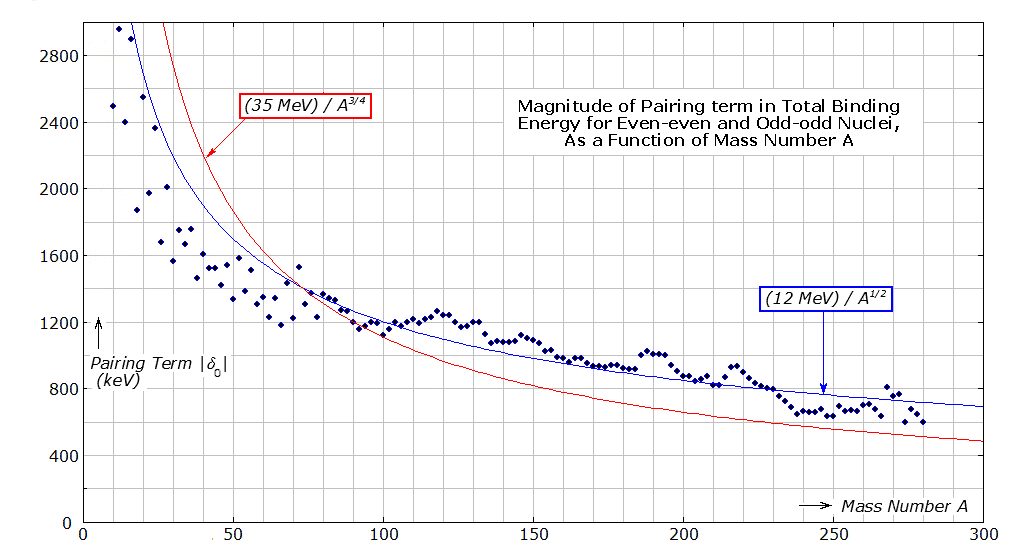 Magnitude of the pairing term in the total binding energy for even-even and odd-odd nuclei, as a function of mass number (nuclear physics). The pairing term (positive for even-even and negative for odd-odd nuclei) was derived from the binding energy data in: G. Audi et al., 'The AME2012 atomic mass evaluation', in Chinese Physics C 36 (2012/12) pp. 1287-1602.